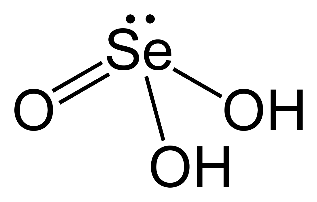 Structural formula of the selenous acid molecule, H2SeO3, better described as O=Se(OH)2. Compound discussed in Greenwood, N. N.; Earnshaw, A. (1997) Chemistry of the Elements (2nd ed.), Oxford:Butterworth-Heinemann ISBN: 0-7506-3365-4. , p. 781. Structure drawn in ChemDraw Ultra 11.0.